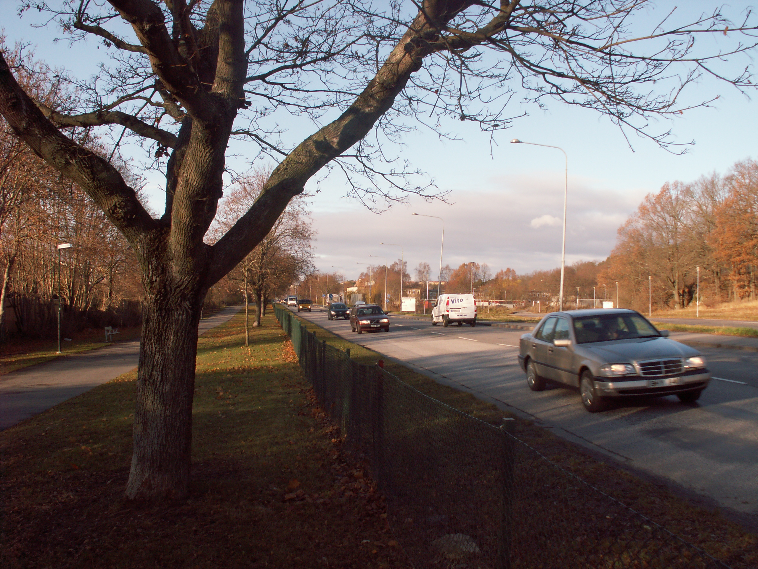 The Älvsjövägen road, Långbro, Stockholm